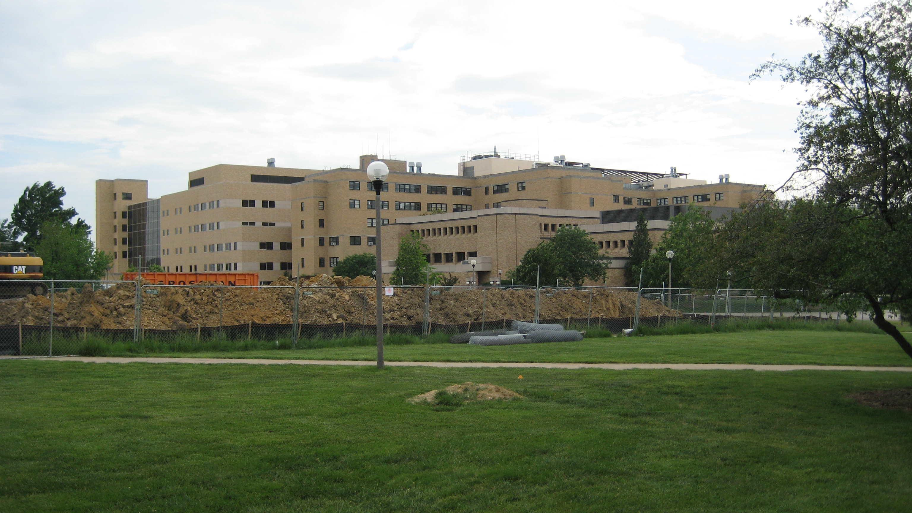 Photo of the University of Missouri hospitals and clinics 2